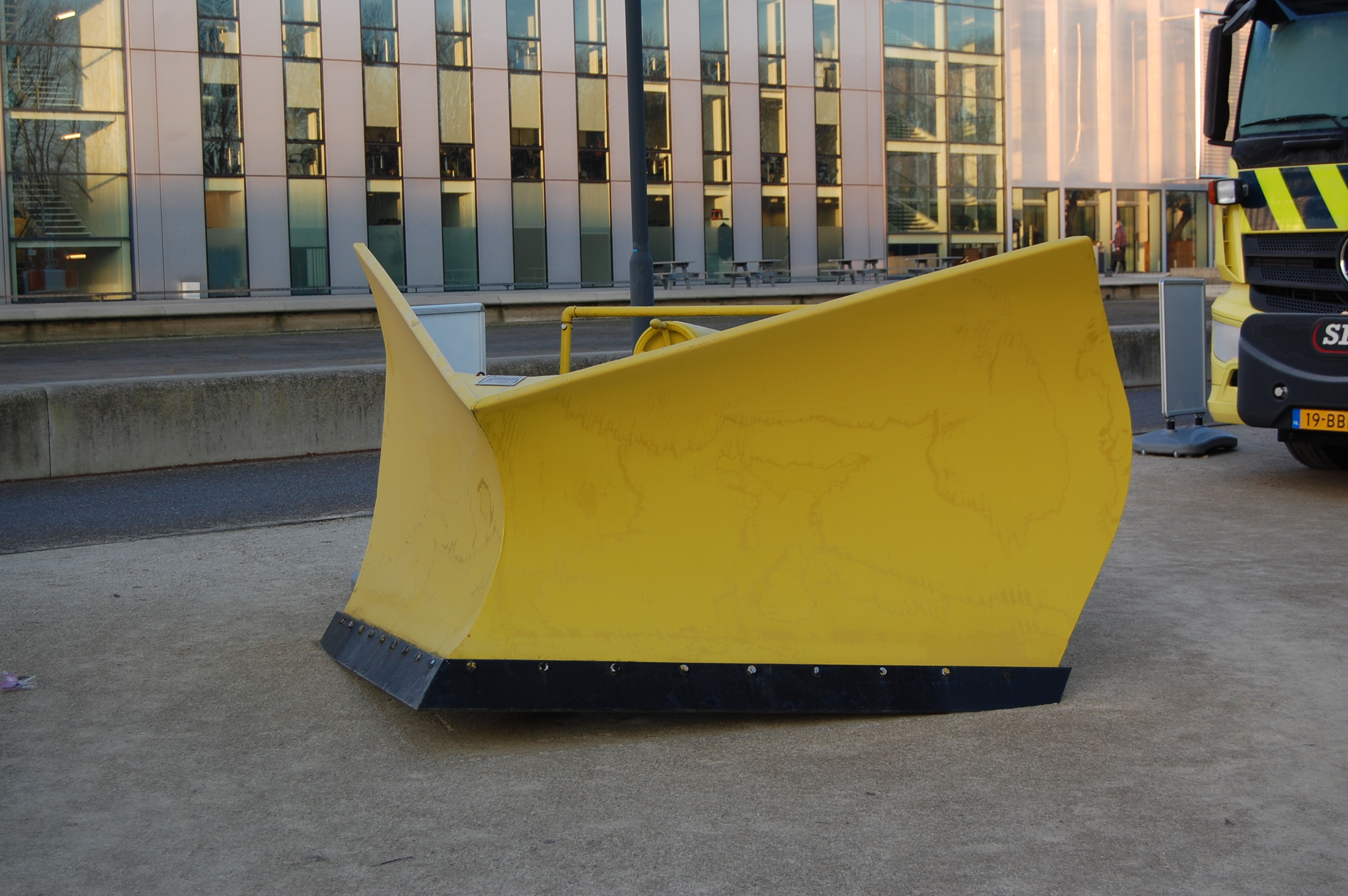 Snow removal tool of Rijkswaterstaat, The Netherlands